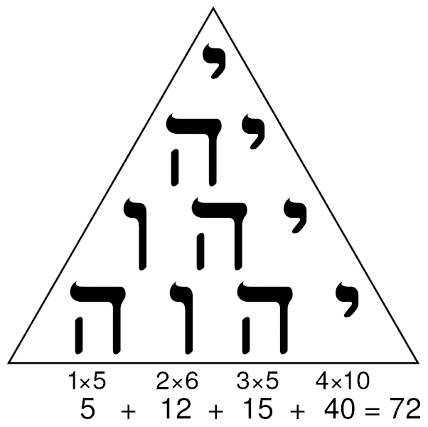 Diagram of the Hebrew letters of the Tetragrammaton arranged in a Tetractys shape, showing that by the rules of Gematria the sum is 72. From diagram by German Hebraist/Cabalist Johannes Reuchlin. See images File:Amphitheatrum sapientiae aeternae - The cosmic rose.jpg and File:Boehme-heart.jpg for historical Tetragrammaton-Tetractys diagrams.